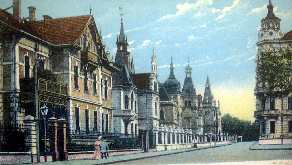 Olomouc 1907(Czech Republic)